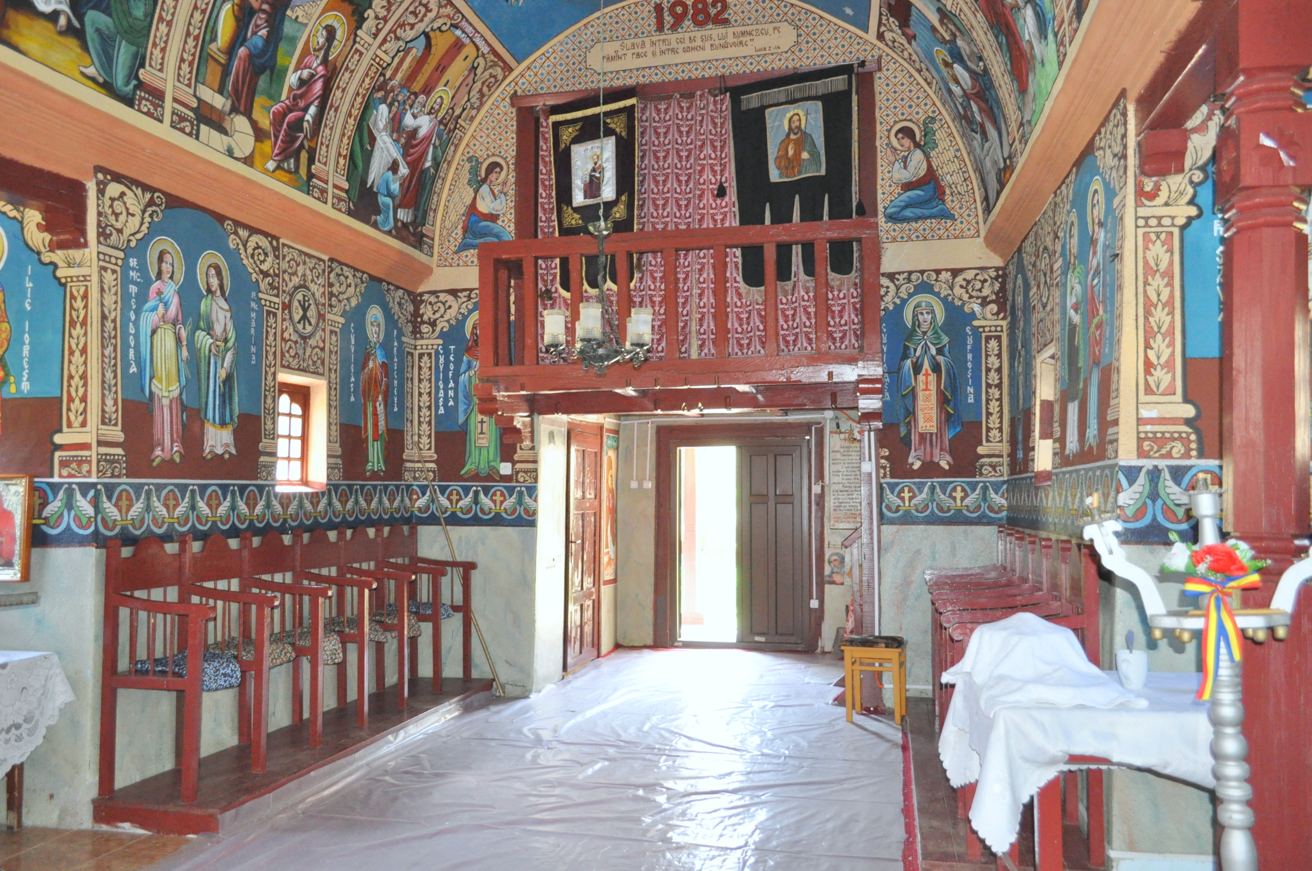 Saint Nicholas wooden church in Groș, Hunedoara county, Romania